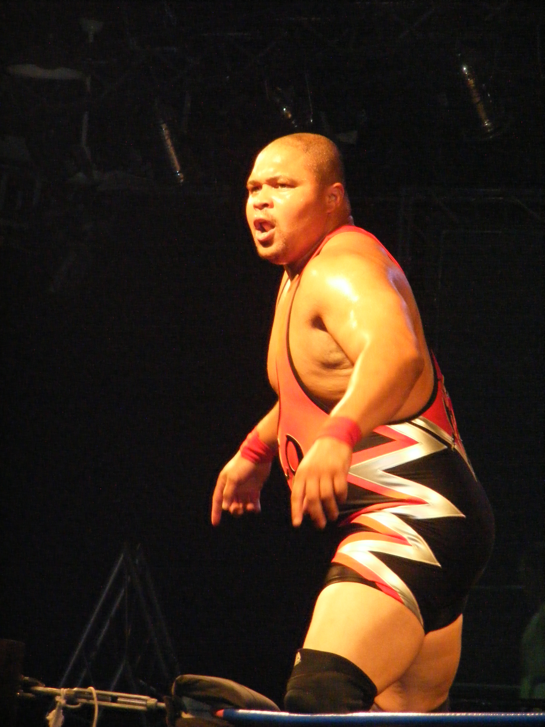 Professional wrestler D'Lo Brown at a Chikara show in May 2009